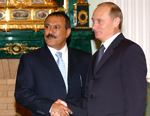 THE KREMLIN, MOSCOW. With the President of the Republic of Yemen, Ali Abdullah Saleh.